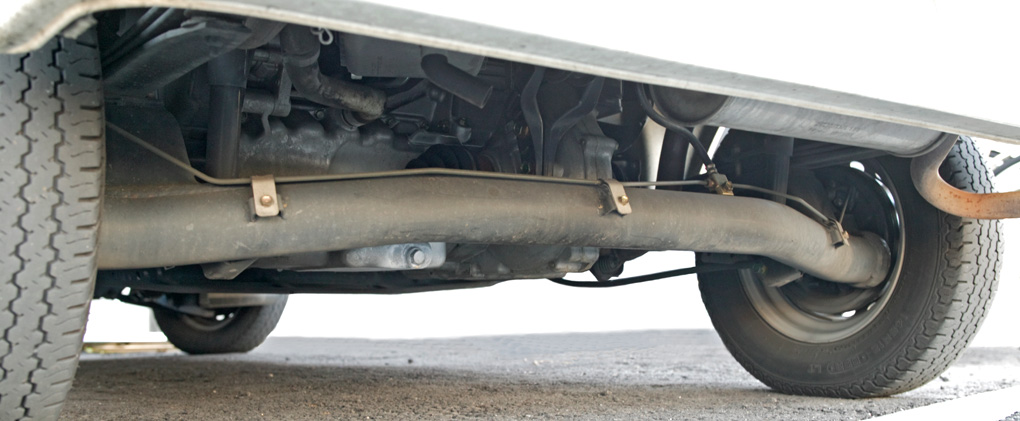 De Dion tube of Honda Acty